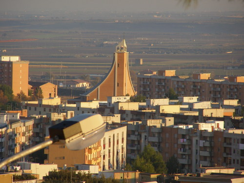 Panoramica del Quartiere 167 di Lucera